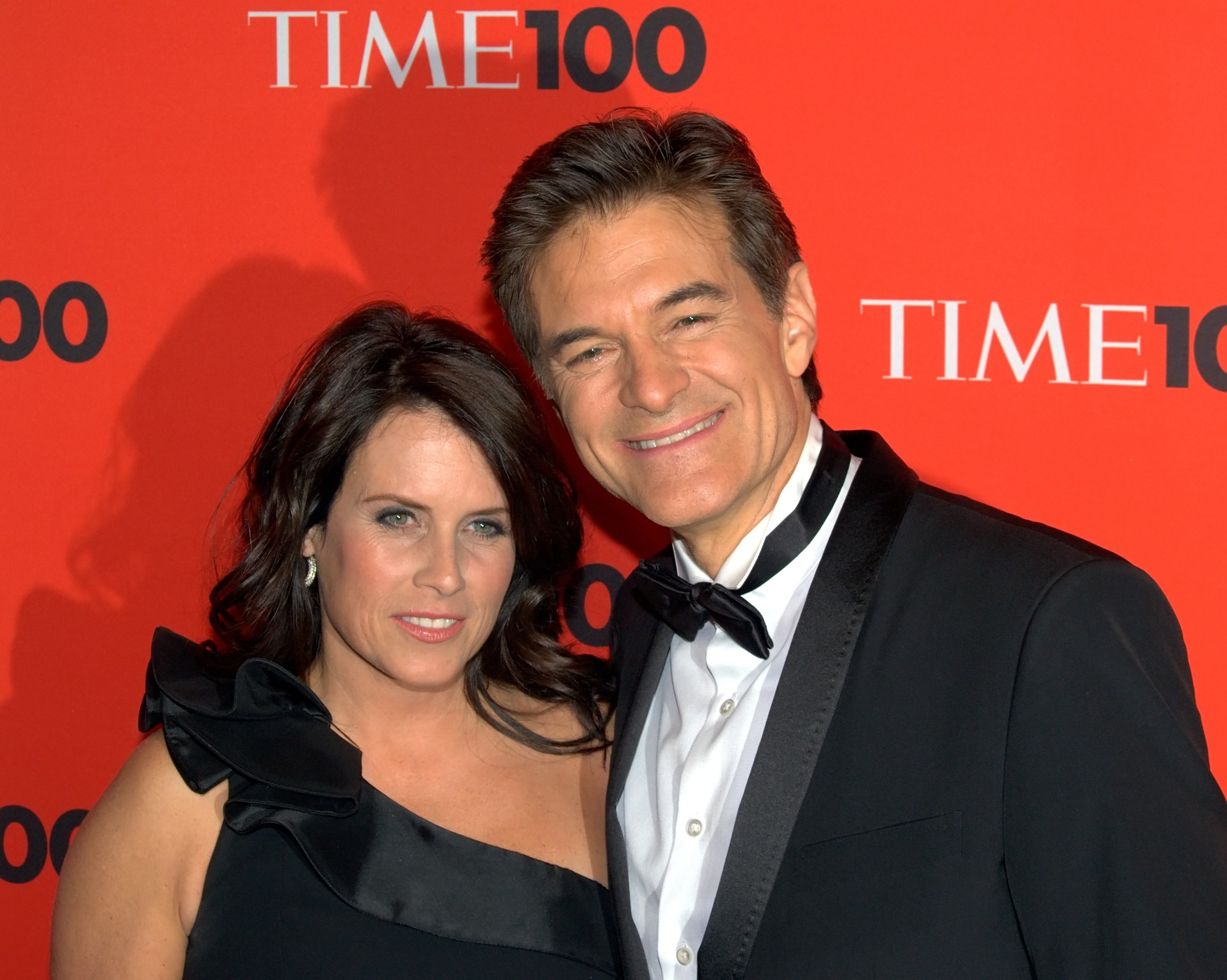 Lisa Oz and Mehmet Oz at the 2010 Time 100.